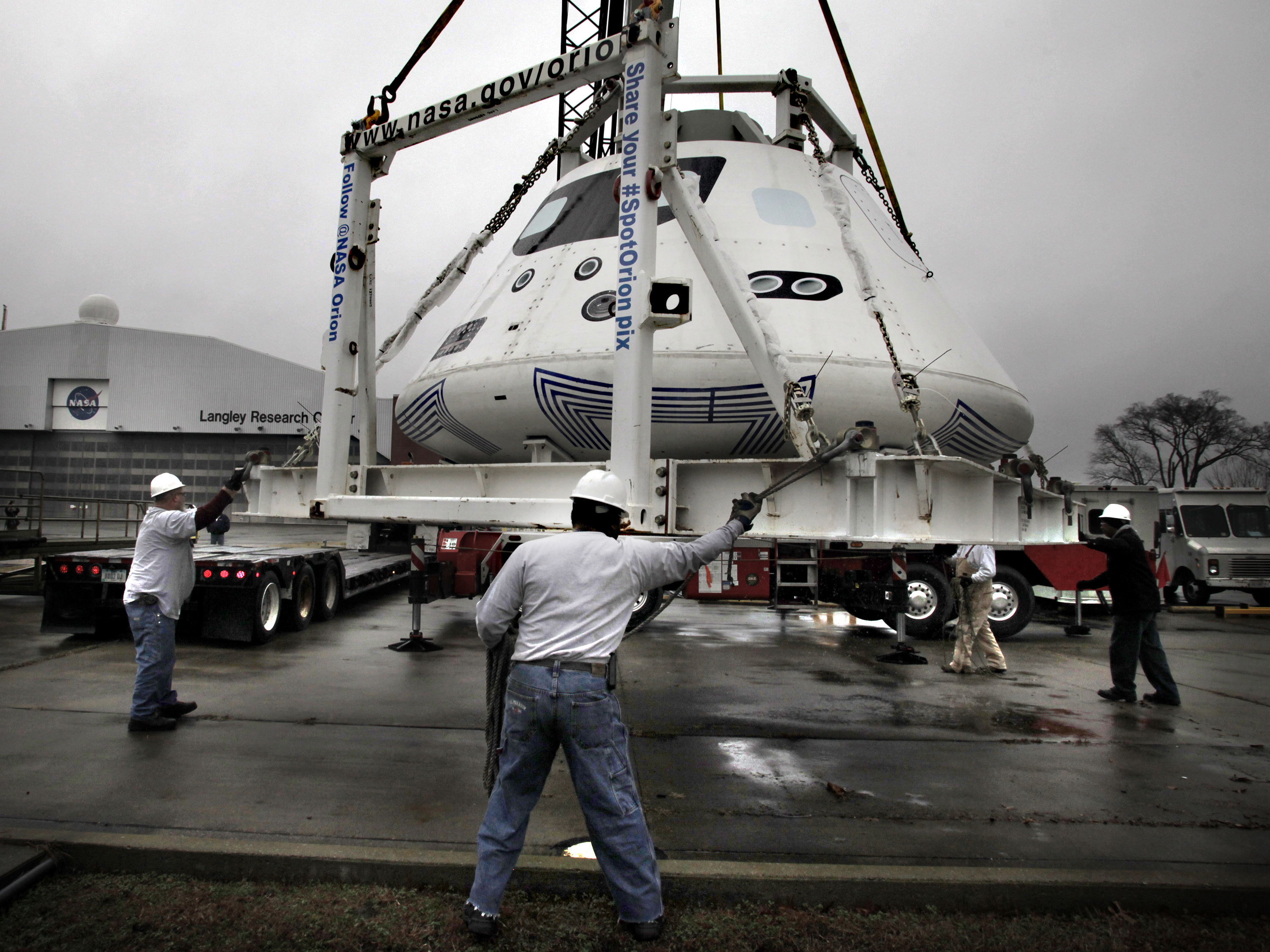 A test version of NASA’s Orion spacecraft gears up to take a long road trip. Starting from NASA’s Langley Research Center in Hampton, Va., the mockup will take a four-week journey across the nation to Naval Base San Diego in California. There, the test article will be used to support NASA’s Underway Recovery Test in February 2014. The test will simulate the recovery of Orion during its first mission, Exploration Flight Test – 1 (EFT-1), scheduled for September 2014. The uncrewed EFT-1 mission will take Orion to an altitude of approximately 3,600 miles above the Earth’s surface, reentering the atmosphere at a speed of over 20,000 miles per hour before landing in the Pacific Ocean. During the recovery test in San Diego, the spacecraft will be set adrift in open and unstable waters, providing NASA and the Navy the opportunity to recover the capsule into the well deck of the USS San Diego. While deployed, the team will seek out various sea states in which to practice the capsule recovery procedure in an effort to build their knowledge base of how the capsule recovery differs in calm and rough seas and what are the true physical limits. NASA and the Navy practiced recovery in calm seas during a Stationary Recovery Test in August where the spacecraft was set adrift in the waters of Naval Station Norfolk in Virginia and recovered into the docked well deck of the USS Arlington. The Orion mockup will travel through Virginia, Tennessee, Arkansas, Texas, New Mexico, Arizona and then reach its final destination in California.